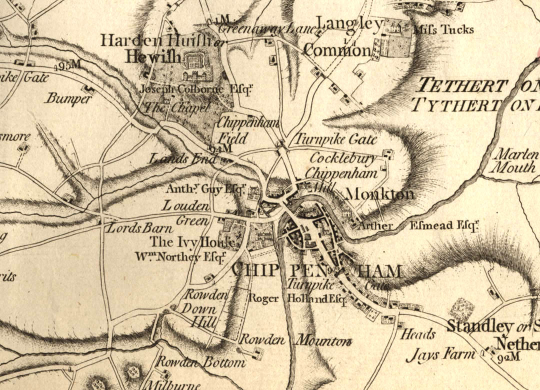 Map of Chippenham from Andrews’ and Dury’s Map of Wiltshire, 1773